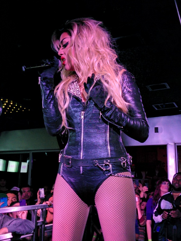 Adore Delano performing a cover of "I Love Rock 'n' Roll" by Joan Jett and The Blackhearts at the Cafe in San Francisco, California, United States.